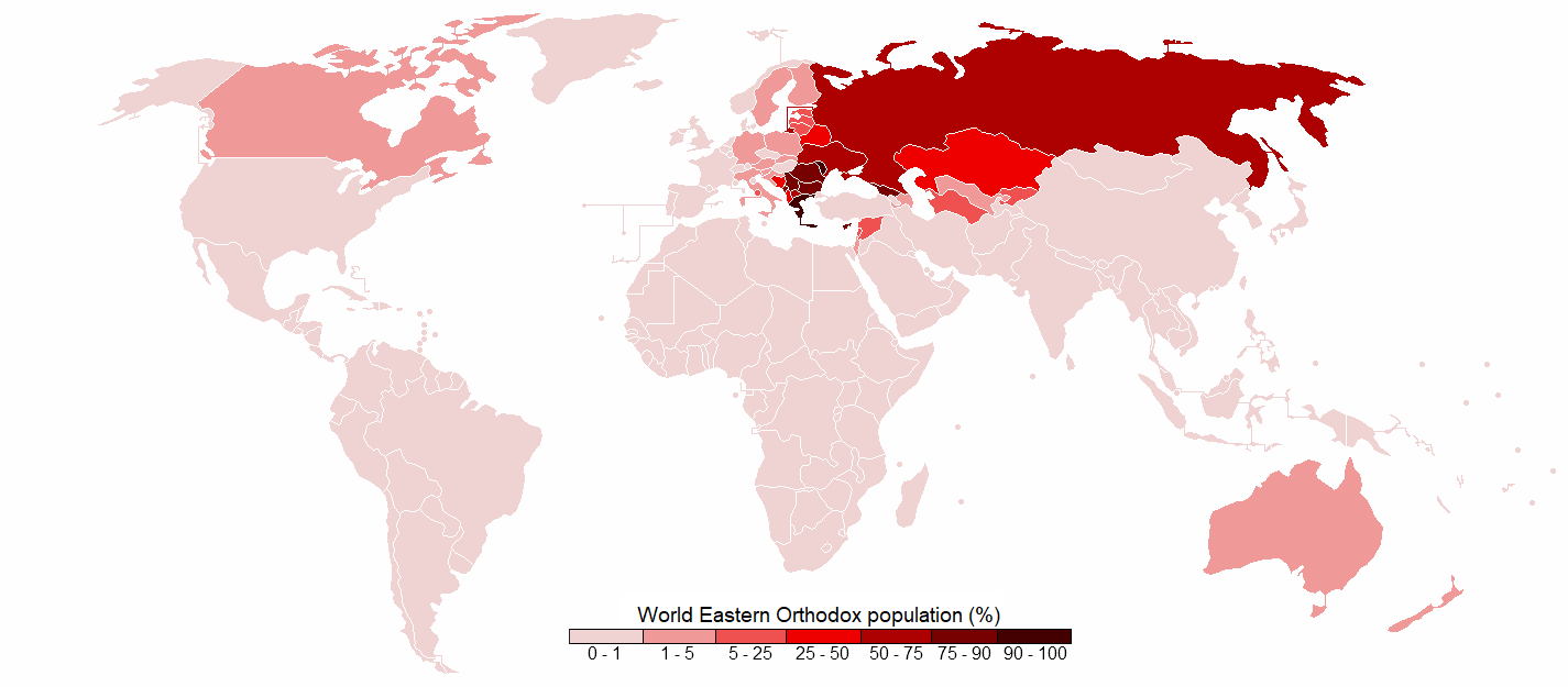 World Eastern Orthodox population (%)